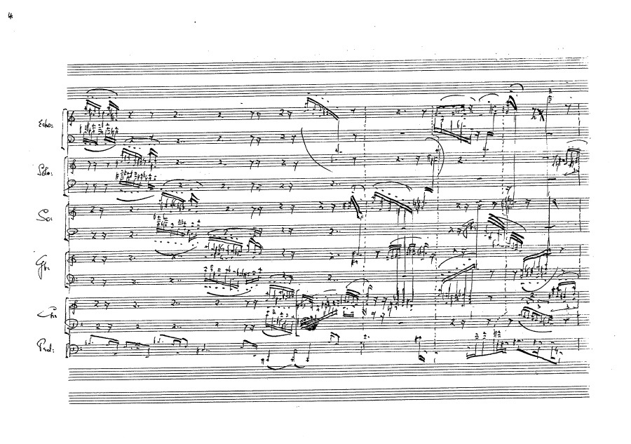 This is page 124 of the manuscript of Kaikhosru Shapurji Sorabji's (1892–1988) Organ Symphony No. 3 (1949–53). This passage is exceptional in both his output and all organ music, as it is written on 11 staves.